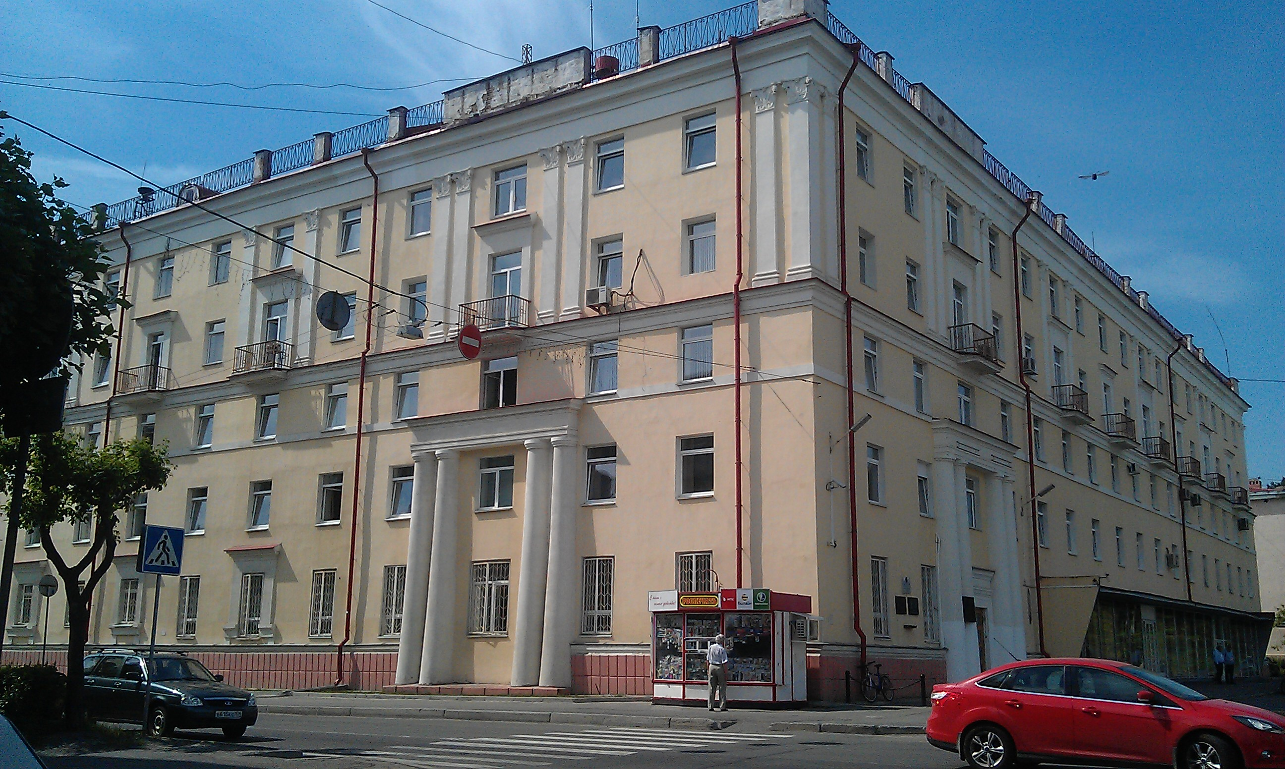 управление ВНИИТФ